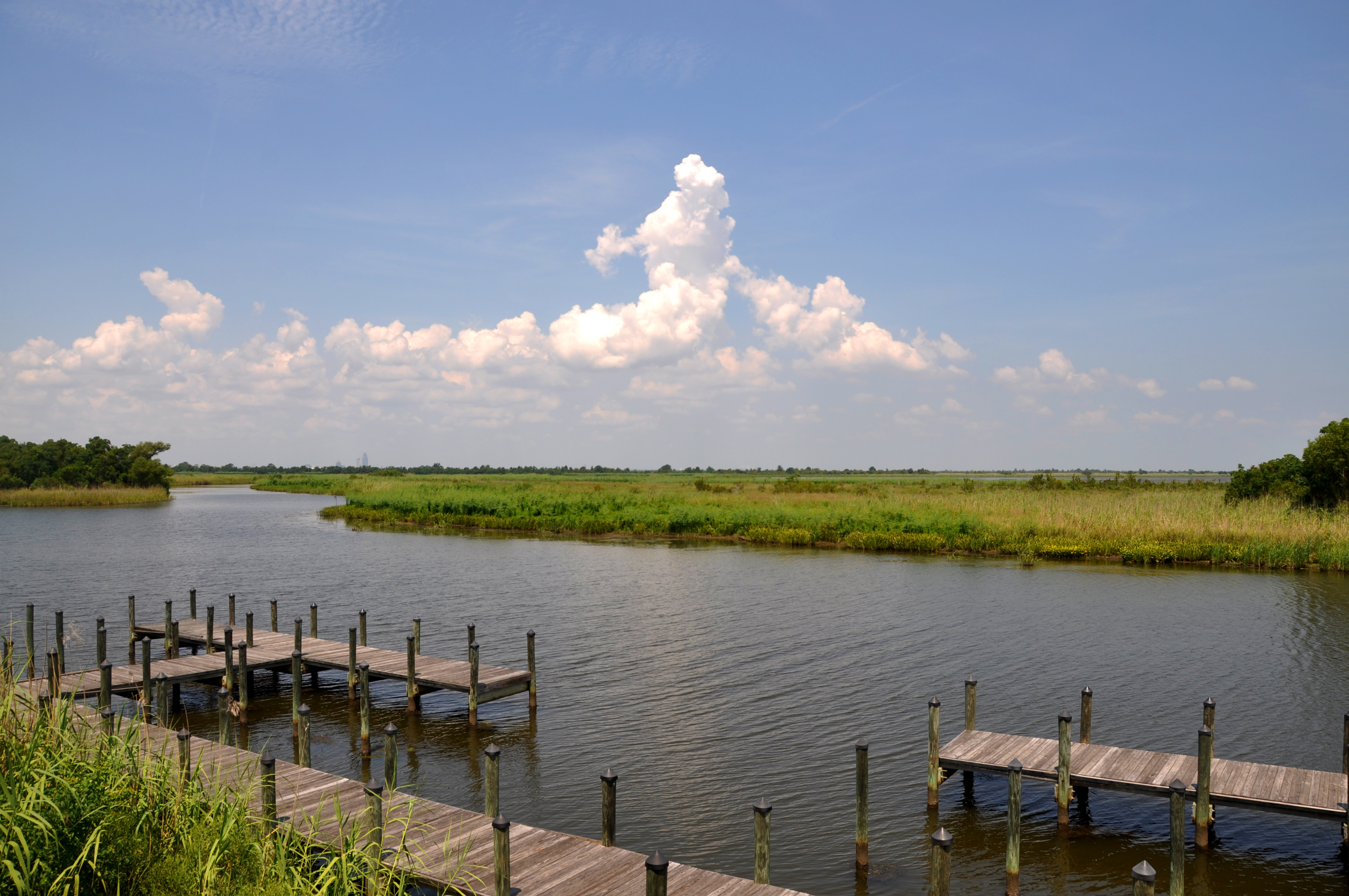 5 Rivers Delta Resource Center